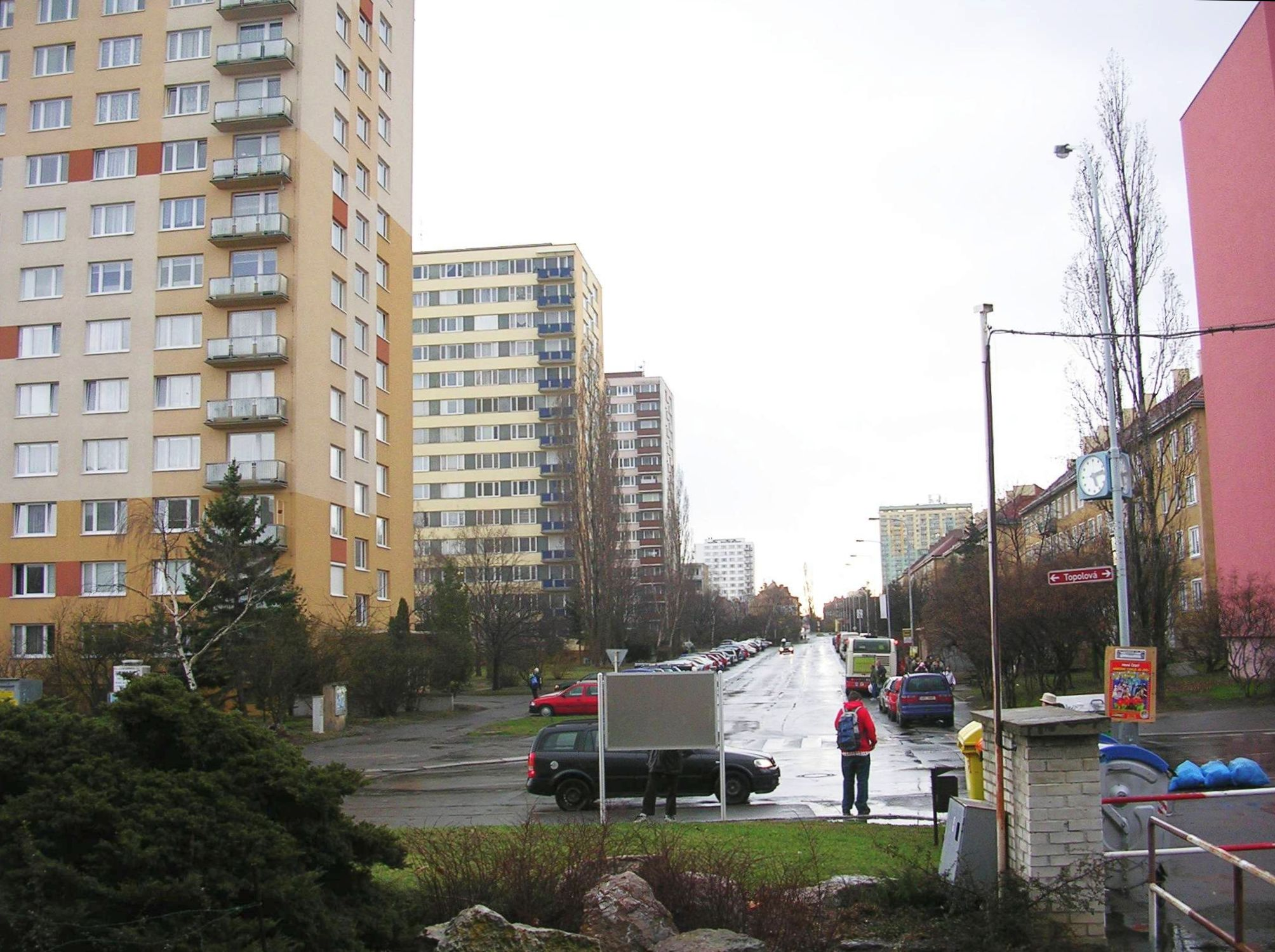 Záběhlice-Zahradní Město, Prague, the Czech Republic.